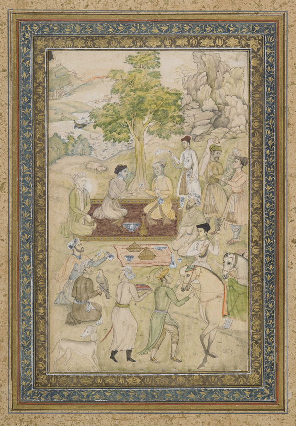 Sultan Murad and Sultan Daniyal on a Picnic ca. 1900 Opaque watercolor and ink on paper H: 47.9 W: 32.2 cm India Purchase--Smithsonian Unrestricted Trust Funds, Smithsonian Collections Acquisition Program, and Dr. Arthur M. Sackler S1986.427